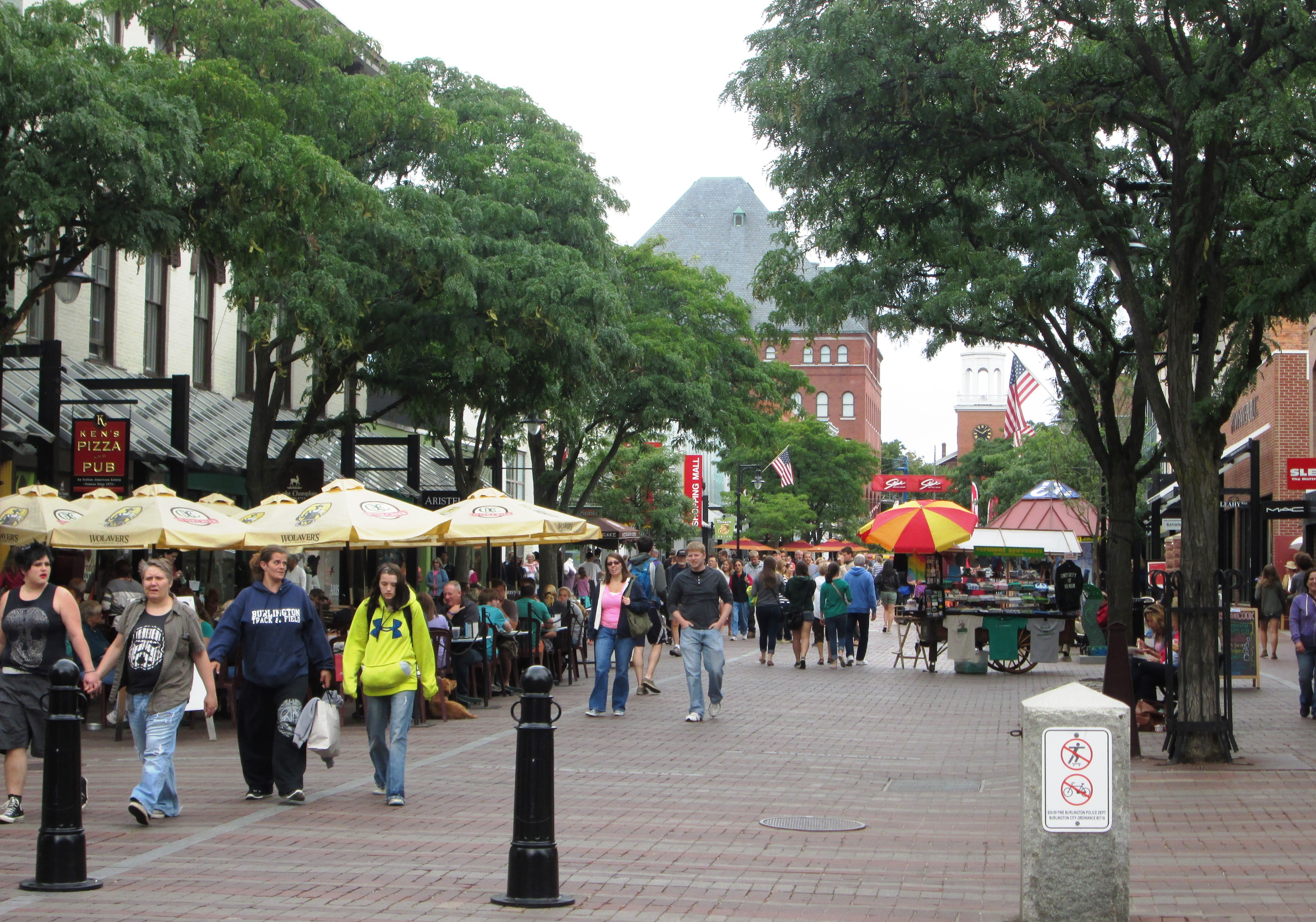 The Church Street Marketplace looking north from Bank Street in Burlington, Vermont